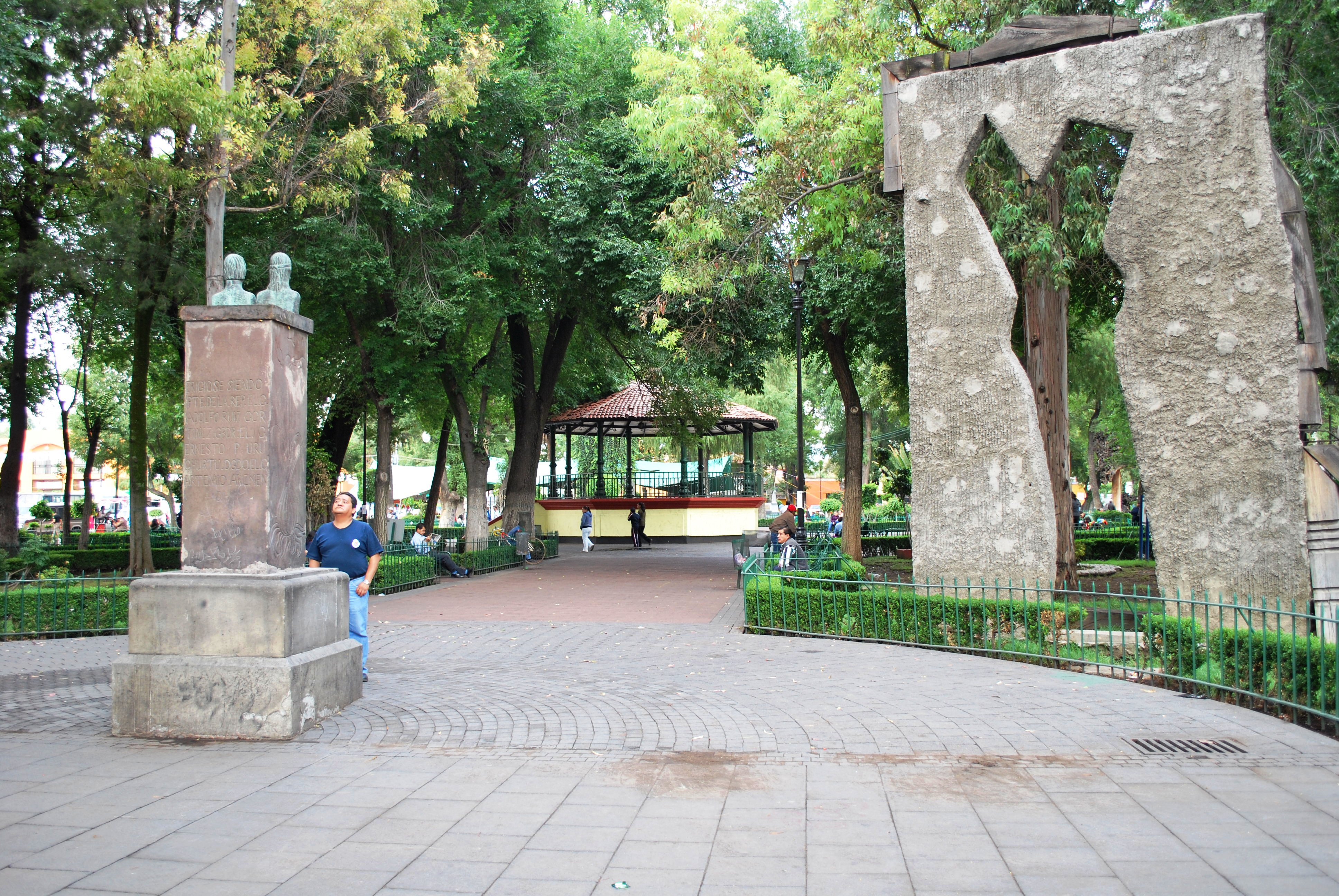 Entrance to plaza in front of the San Bernadino de Siena Church in Xochimilco, Mexico City.